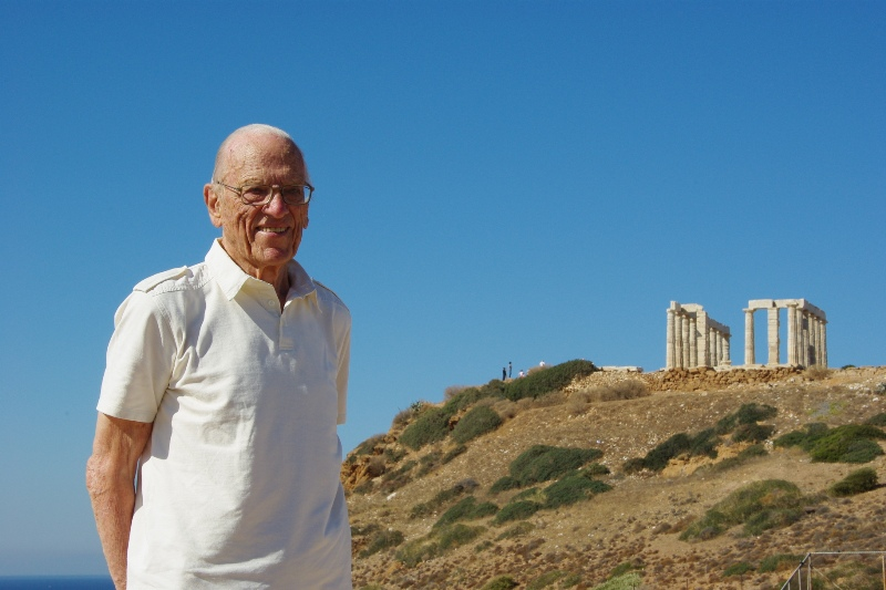 Professor Sture Linnér at Cape Sounion, Greece, with the Poseidon temple in the background.